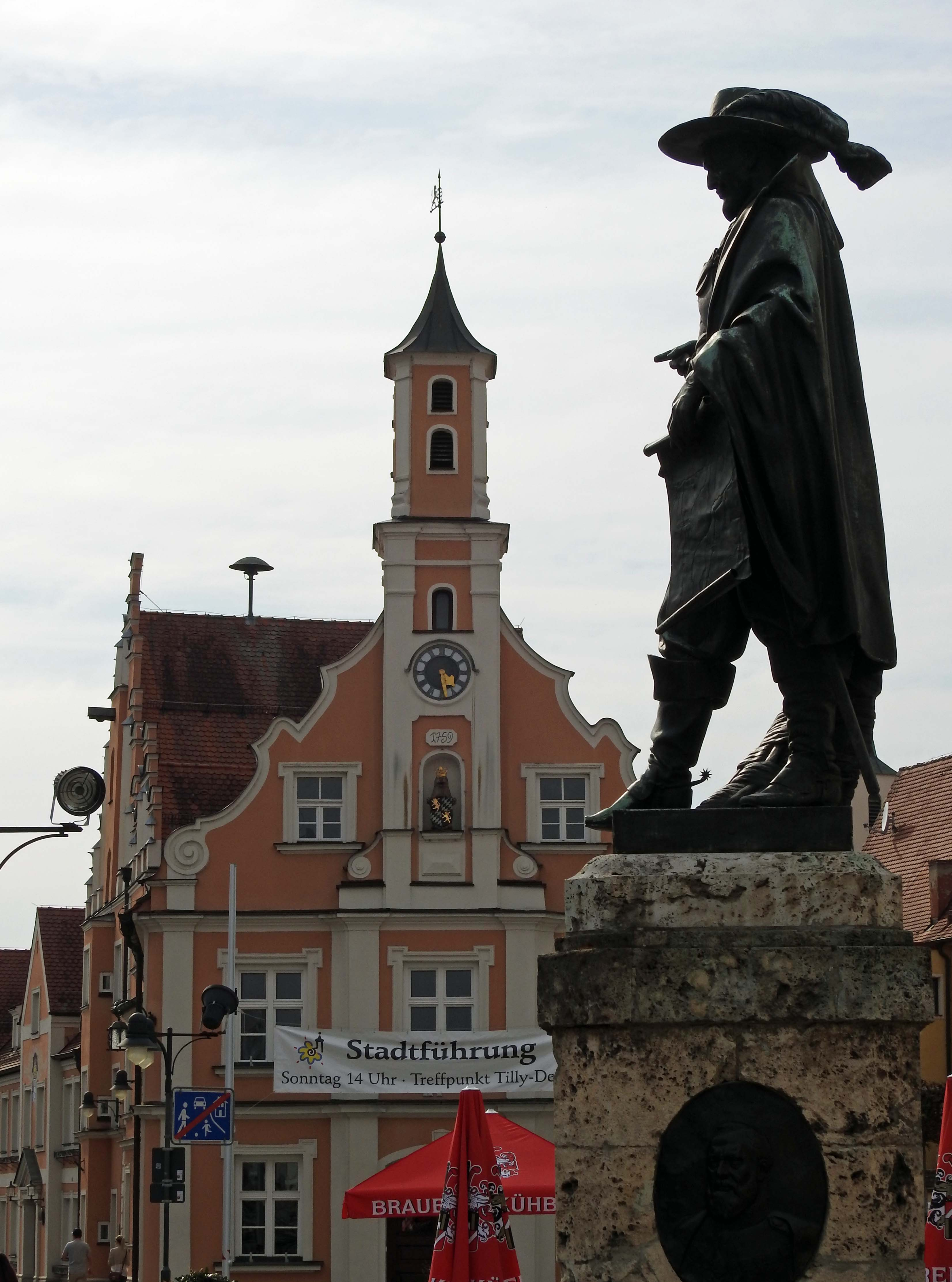 Johann Tserclaes, Count of Tilly monument, Rain;Bavarian monument authority ID: D-7-79-201-15 [1]